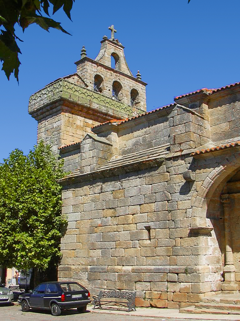 Image of Santa María church in Pereña de la Ribera (Salamanca, Spain) in the Arribes del Duero.